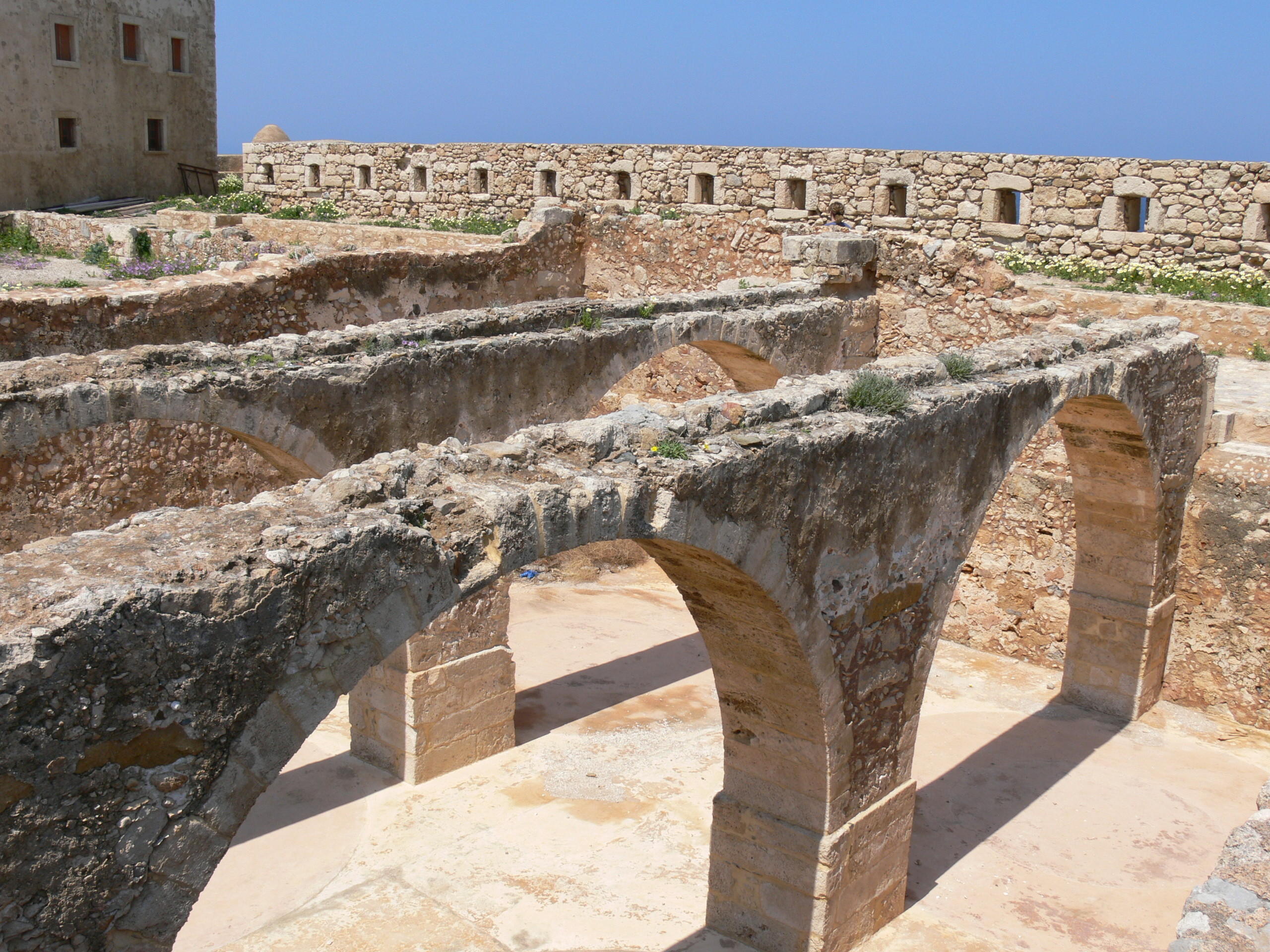 Rethymno fortress ( Crete ). Casemates.